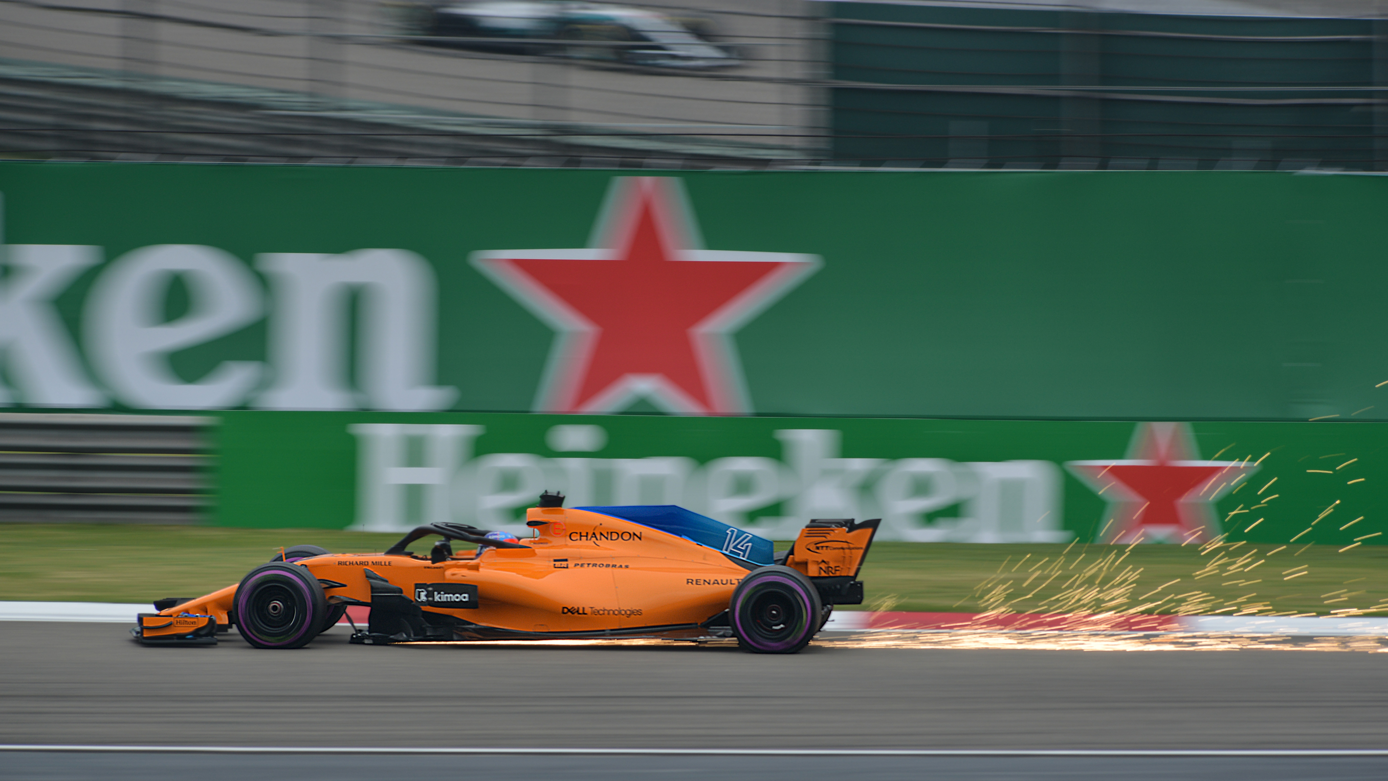 Spanish racing driver Fernando Alonso on McLaren-Renault MCL33 of McLaren F1 Team, during the free practice of the 2018 Heineken Chinese Grand Prix at the Shanghai International Circuit.